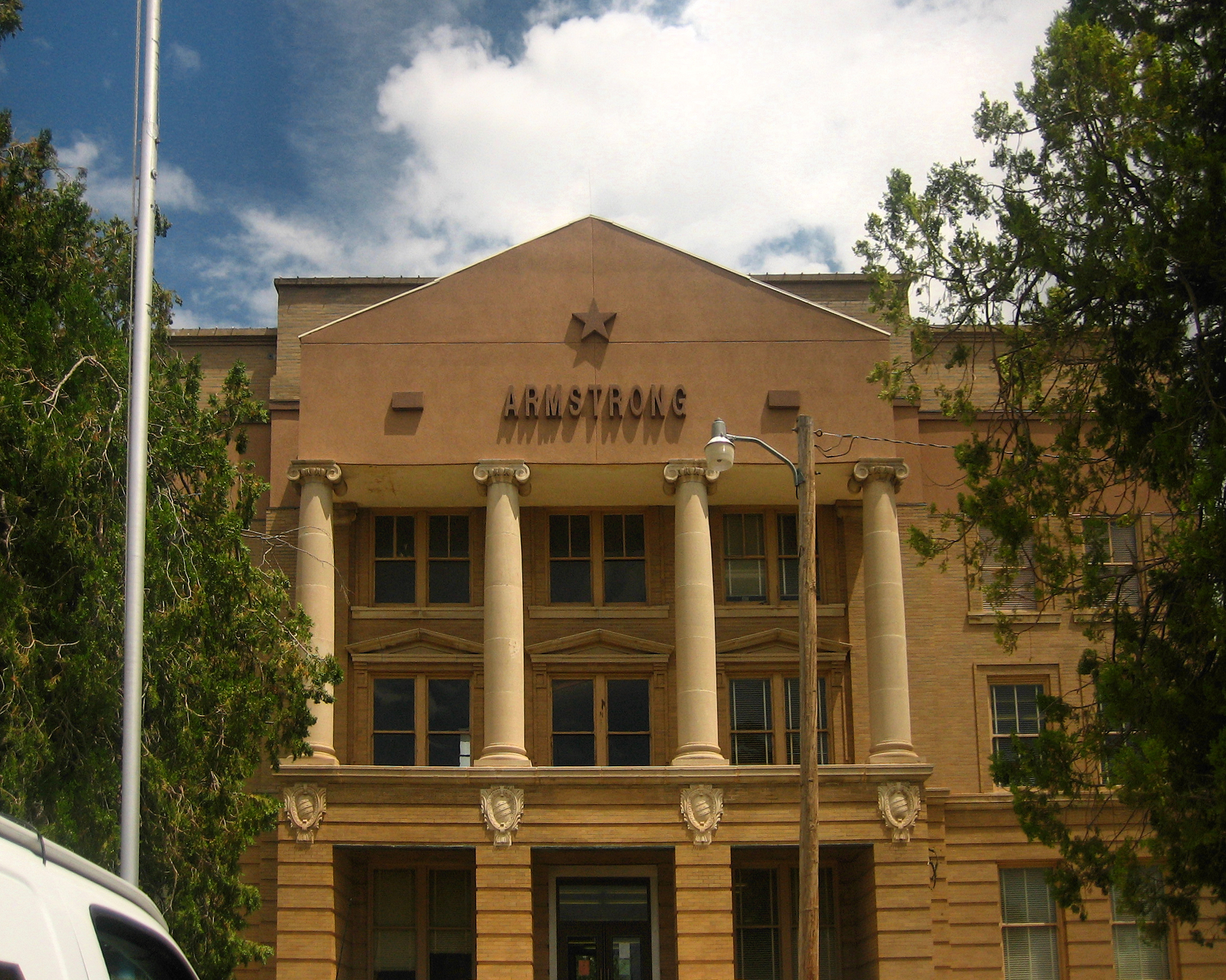 The Armstrong County Courthouse in Claude, Texas, United States. I took photo on July 15, 2008.Billy Hathorn (talk) 01:25, 20 July 2008 (UTC)